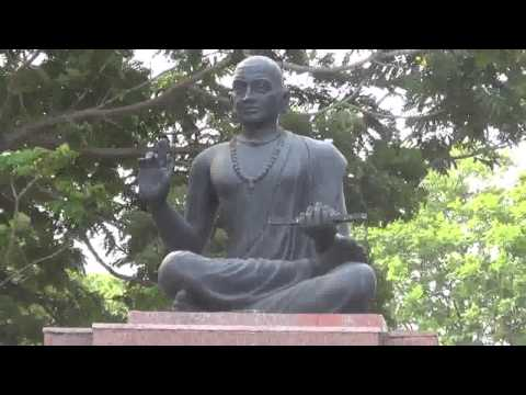 Well known poet who translated Sanskrit Mahabharat to Telugu.